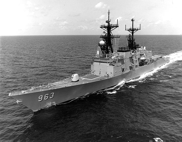 The U.S. Navy destroyer USS Spruance (DD-963) underway after modernization with the Mark 41 Vertical Launching System (VLS), circa in June 1987.